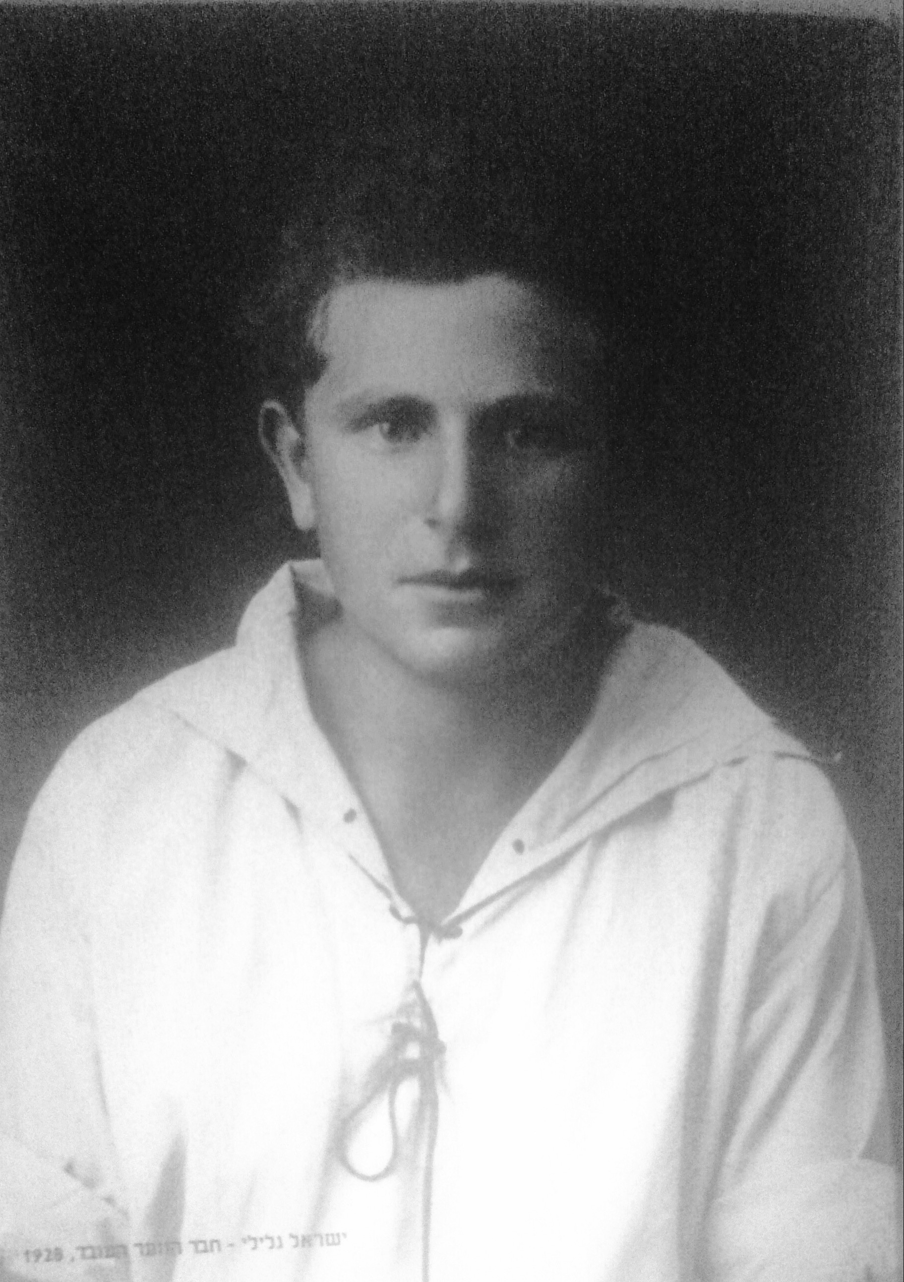 Israel Galili in teenage In Ha'Noar Ha'Oved uniforms